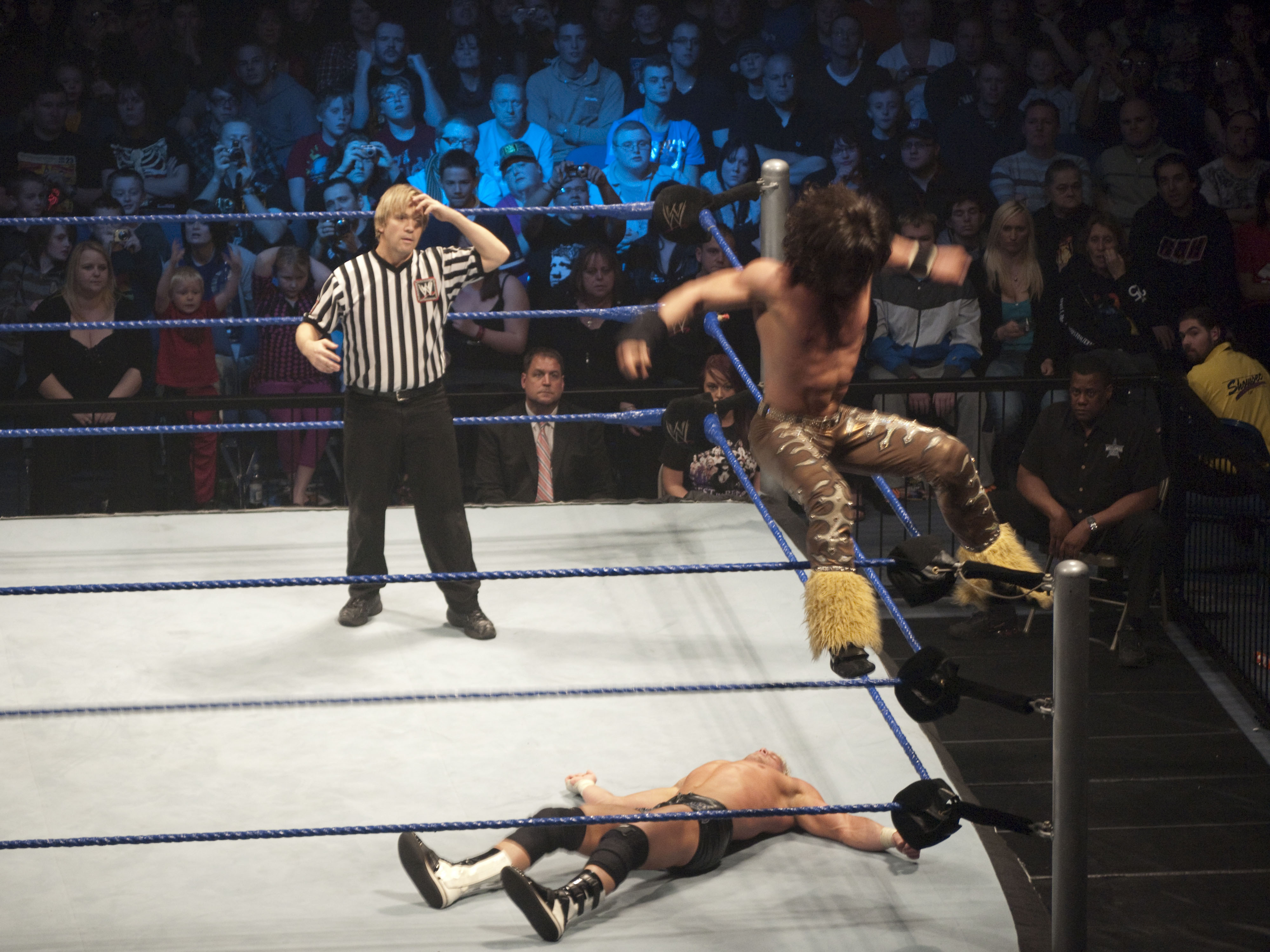 John Morrison hits his finishing move - Starship pain!